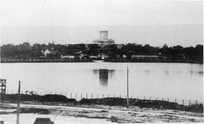 Historic photo taken by the British military on February 1942 - ineligble for copyright. Photo of the blown up causeway between Singapore and Malaysia, delaying the Japanese attack for nine days.